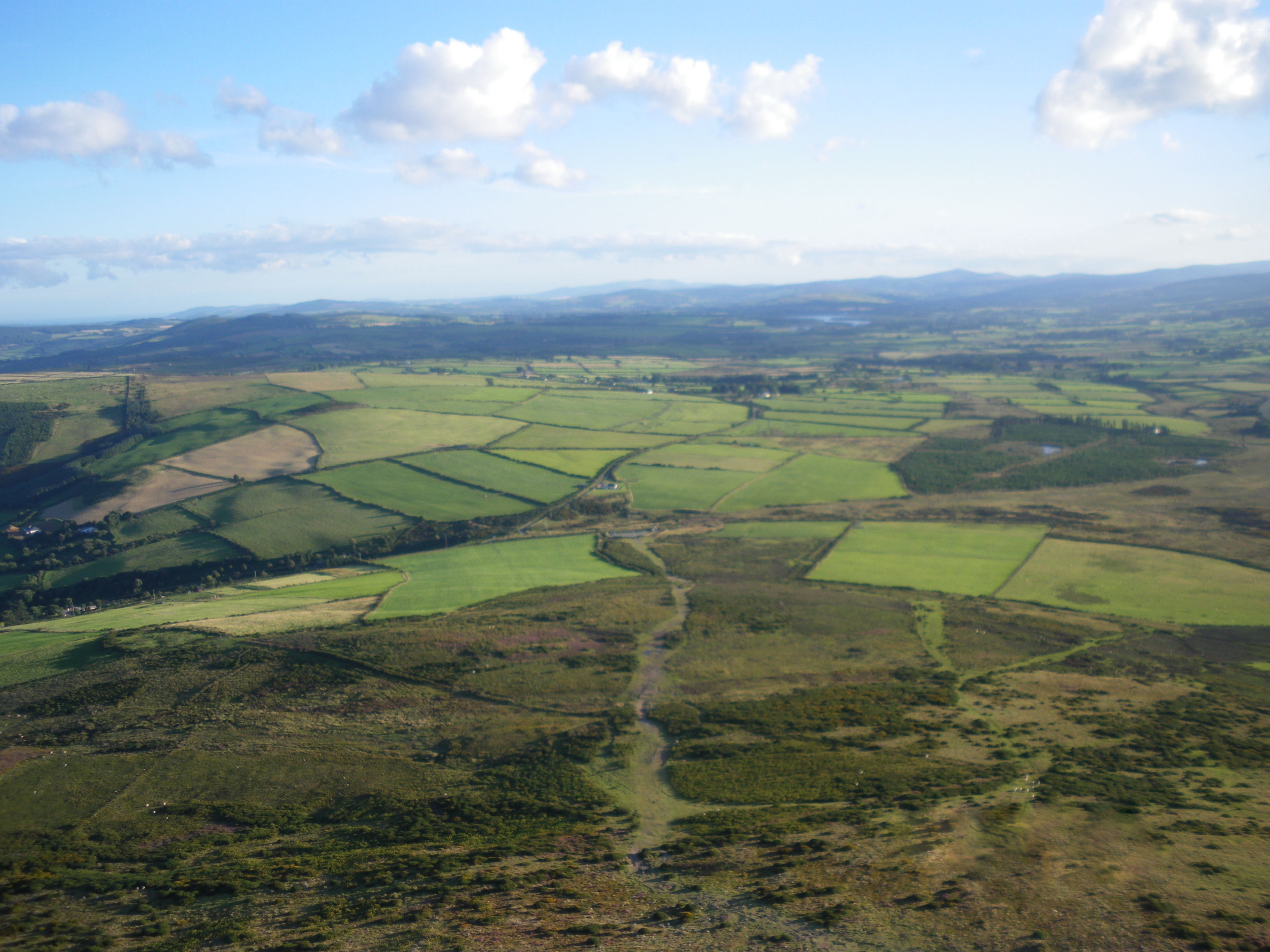 Wicklow Plains from Great Sugar loaf